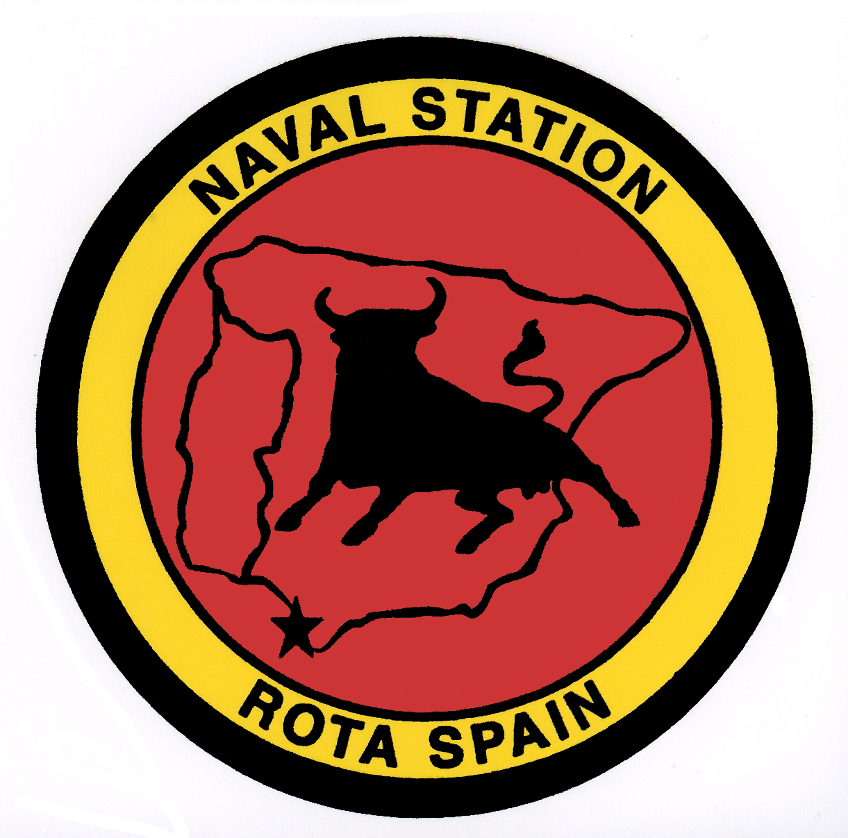 navsta rota, spain bull logo